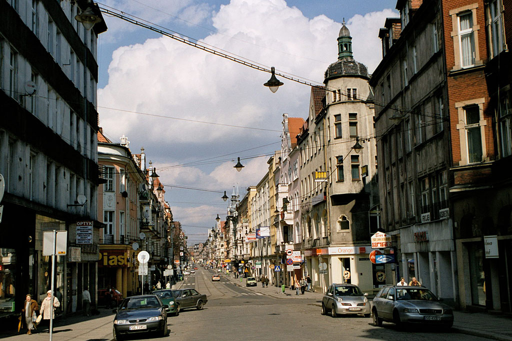 Gliwice - Centre ville (Zwycięstwa Street)